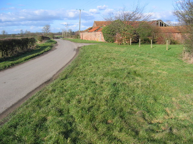 Gowthorpe, East Riding of Yorkshire, England.View north at Gowthorpe on the road to Youlthorpe. This area is all farmland.